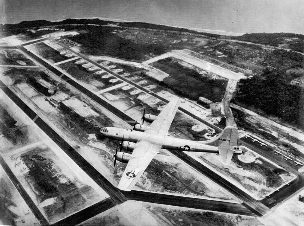 B-29, tail number 42-63674, in flight over Northwest Field, Guam. Records indicate this particular bomber was assigned to the 315th Bomb Wing, 501st Bomb Group.